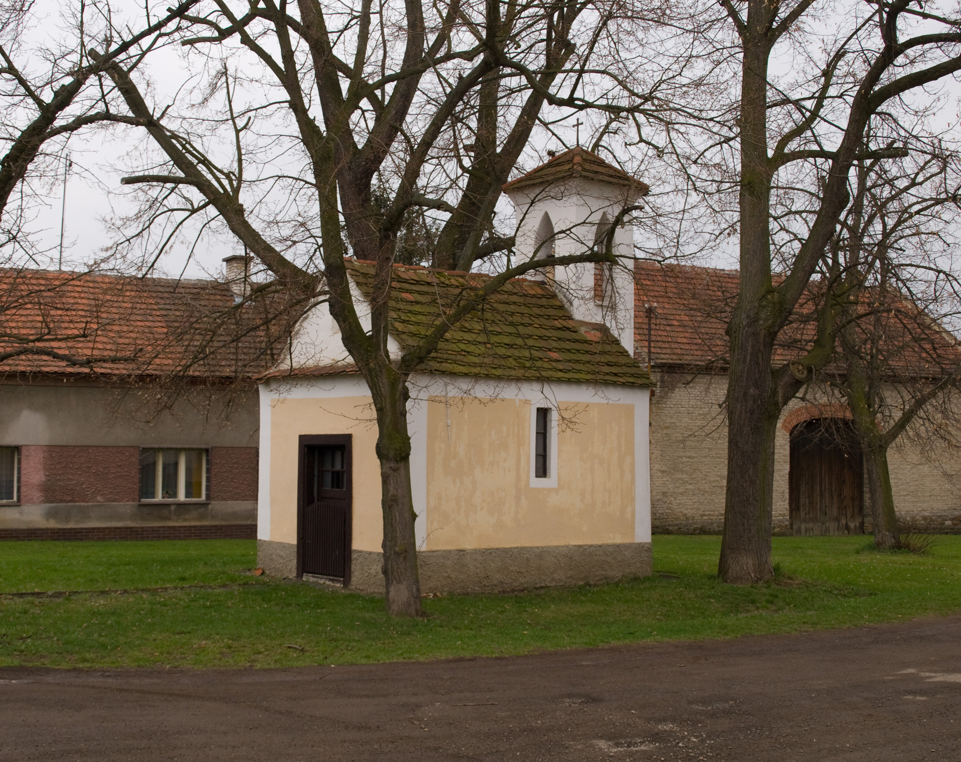 Otmíče, okres Beroun, Středočeský kraj, Česká republika